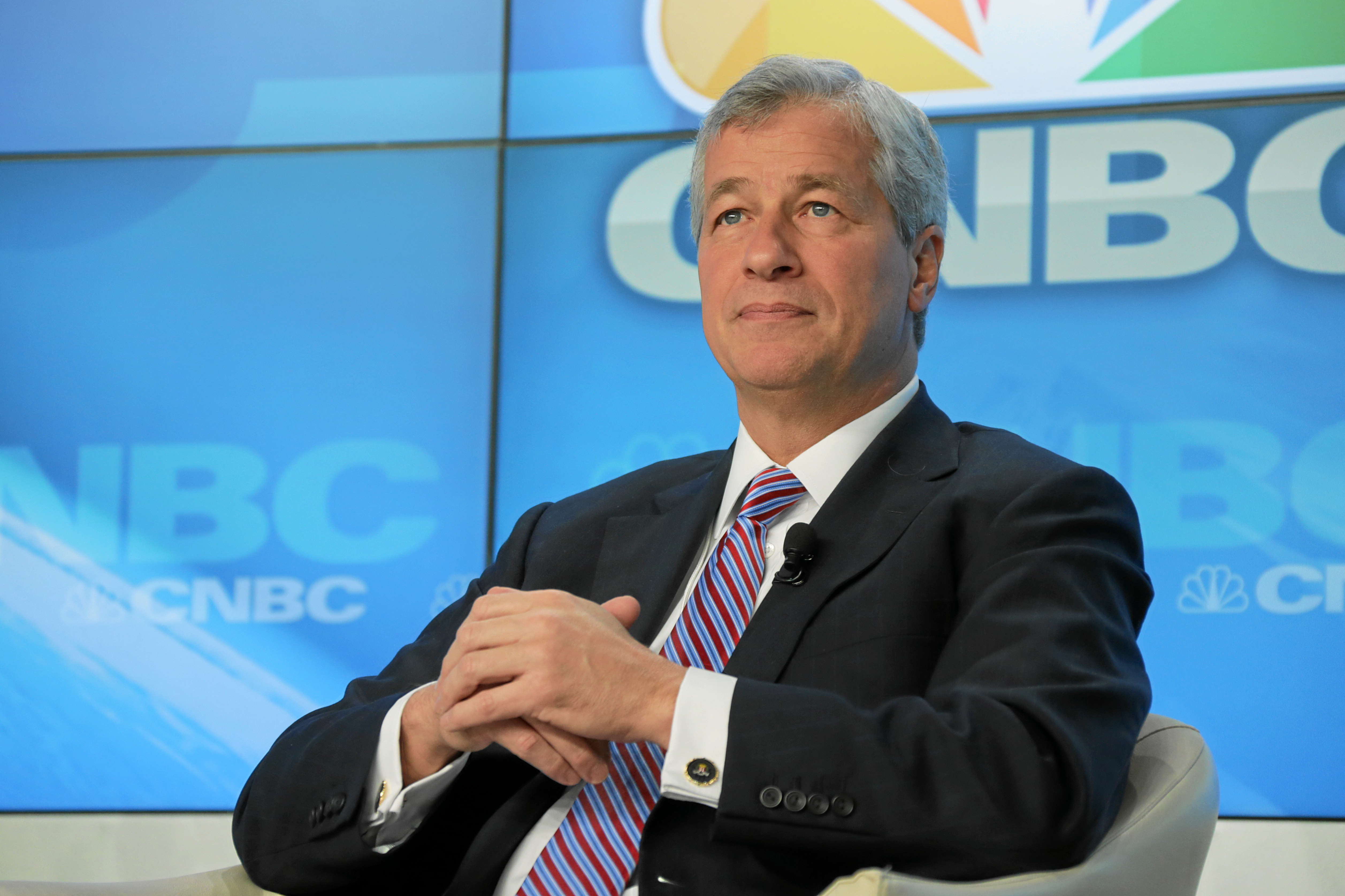 DAVOS/SWITZERLAND, 23JAN13 - James Dimon, Chairman and Chief Executive Officer, JPMorgan Chase & Co., USA is listens during the session 'The Global Financial Context - Reinforcing Critical Systems' at the Annual Meeting 2013 of the World Economic Forum in Davos, Switzerland, January 23, 2013.. . Copyright by World Economic Forum. . Remy Steinegger